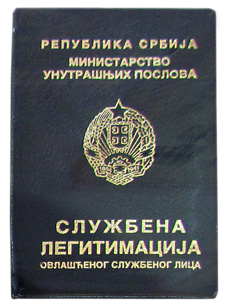 Police ID Serbia